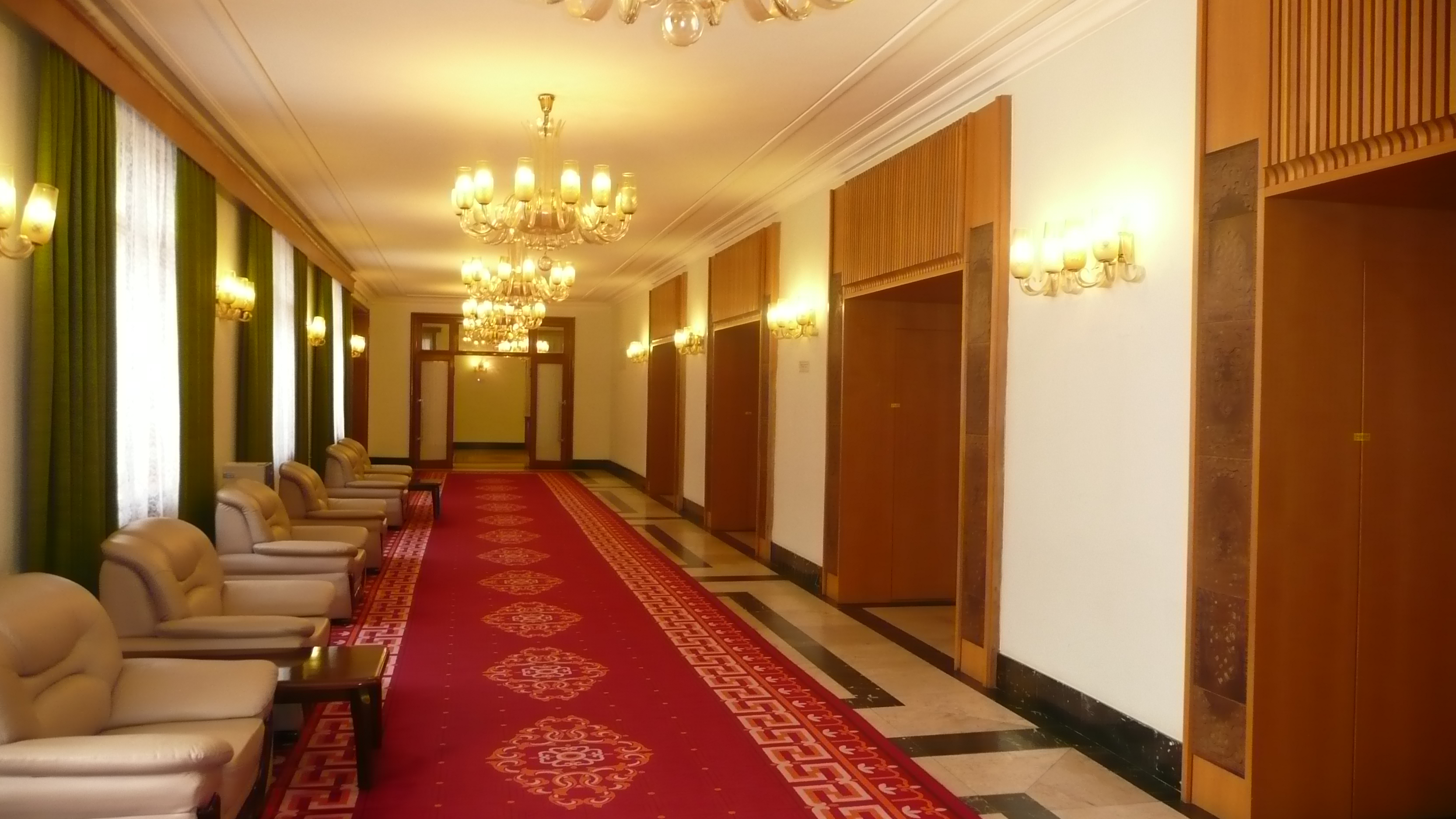 Inside the Mongolian Parliament